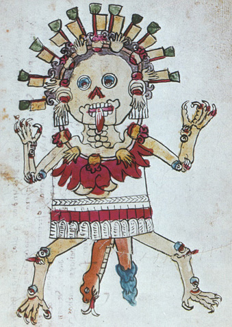 Tzitzimitl, from Codex Magliabechano